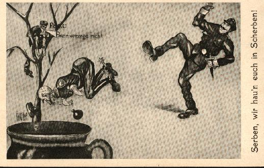 World War I propaganda card against Serbs